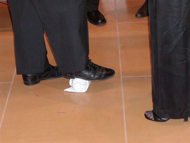 Breaking the glass at a Jewish wedding A glass placed on the floor, and the groom shatters it with his foot. This serves as an expression of sadness at the destruction of the Temple in Jerusalem, and identifies the couple with the spiritual and national destiny of the Jewish people. A Jew, even at the moment of greatest rejoicing, is always mindful of the Psalm's injunction to "set Jerusalem above my highest joy." This marks the conclusion of the ceremony. With shouts of "Mazel Tov," the bride and groom are then given an enthusiastic reception from the guests as they leave the chuppah together.